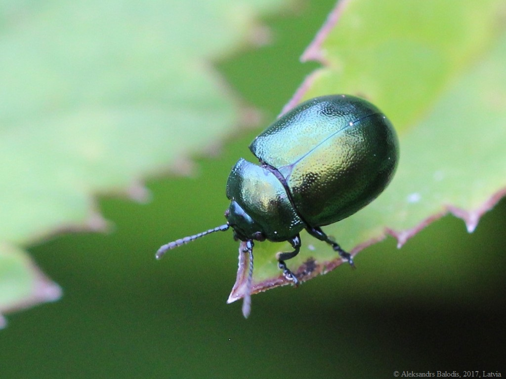 Chrysolina varians